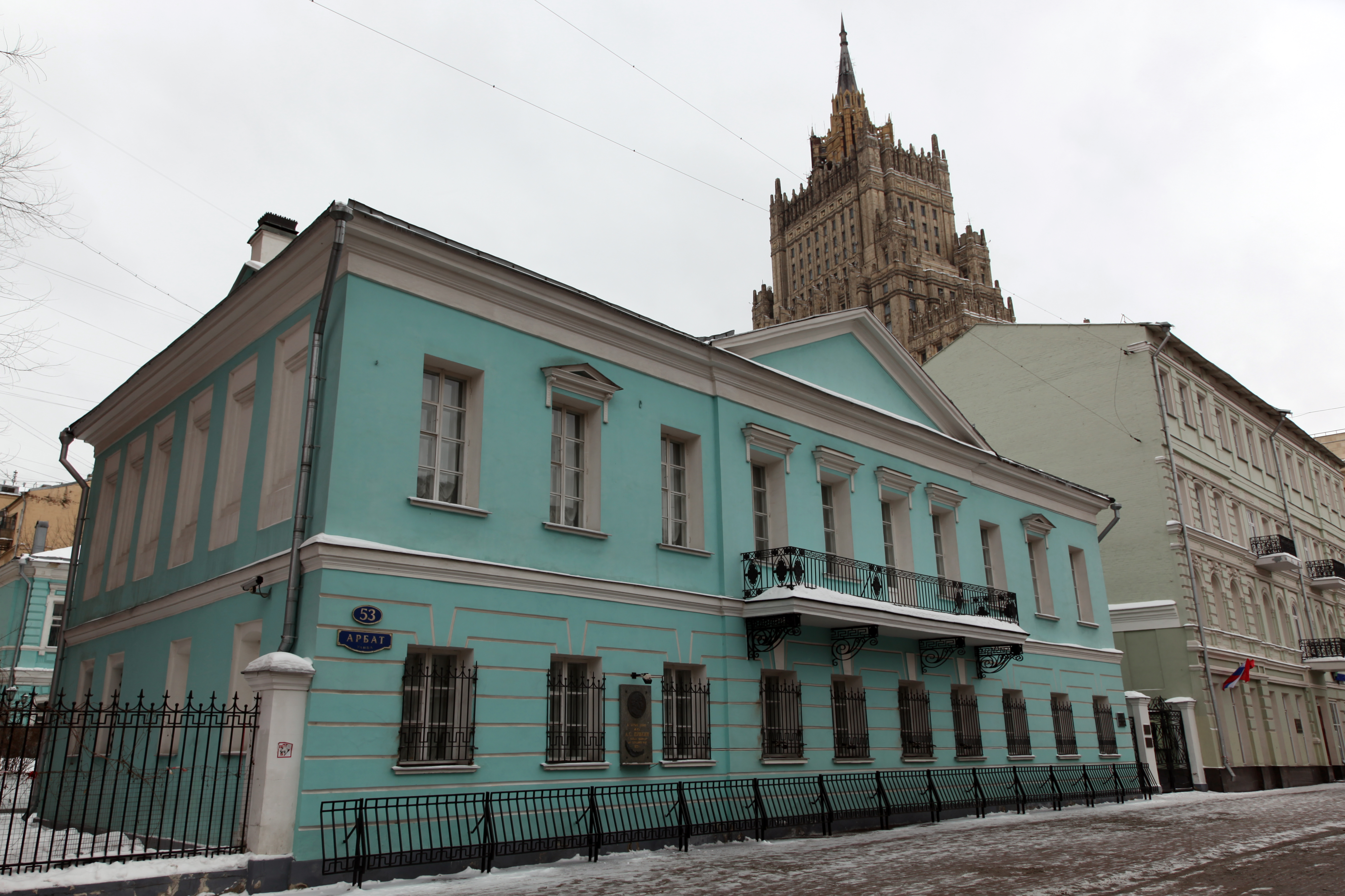 Arbat Street in Moscow, Pushkin Museum (Мемориальная квартира Пушкина на Арбате)